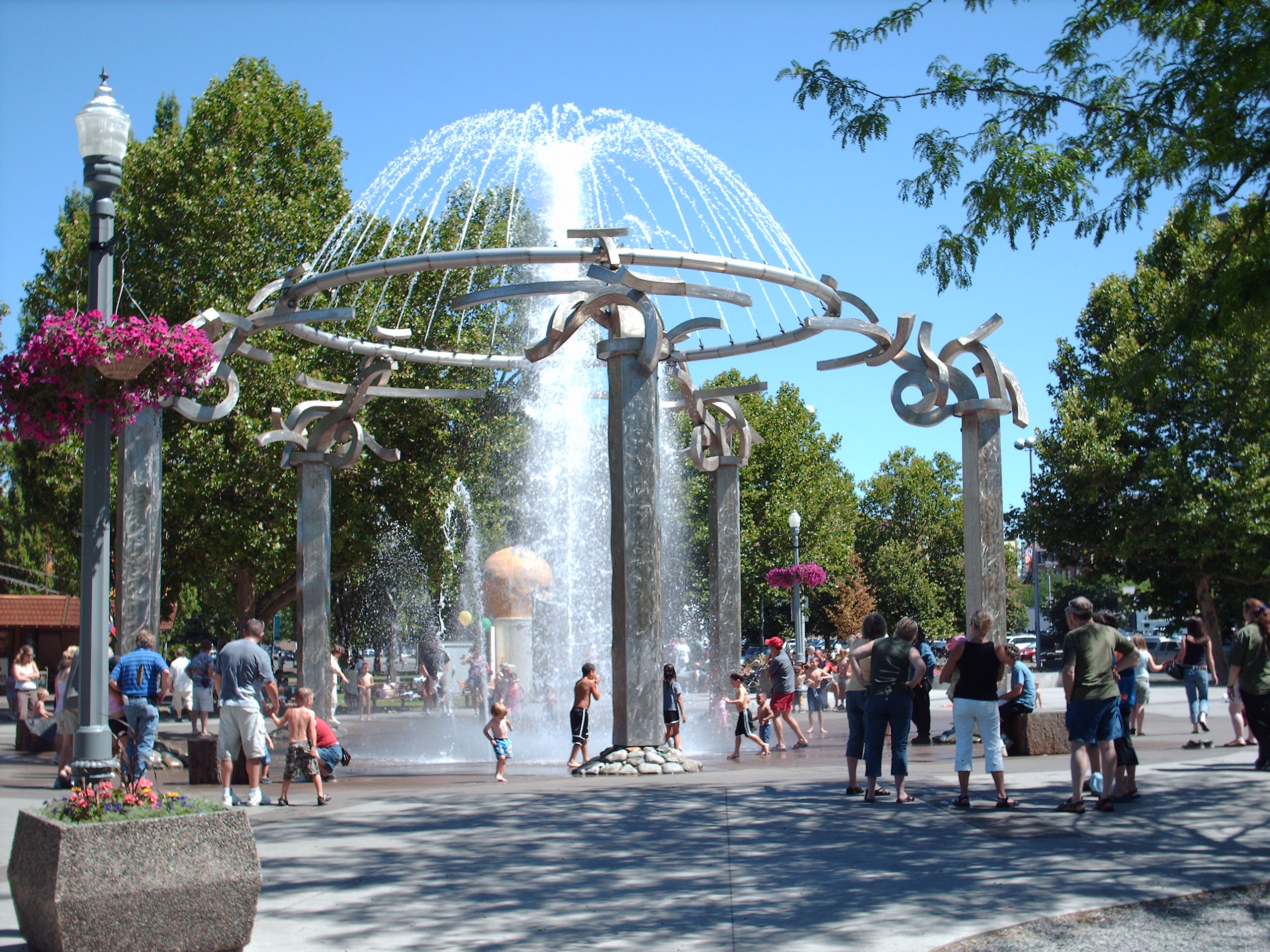 The Rotary Fountain, by Harold Balazs, in Riverfront Park, Spokane, Washington in 2006.